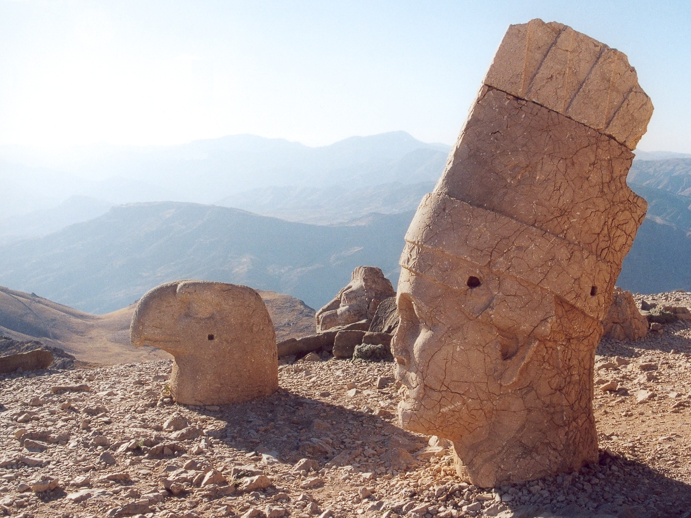 Turkey: Nemrut Dağı, East Terrace. Fallen Heads of Gods.